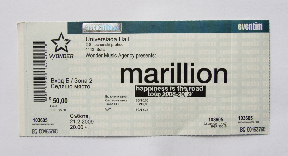 Marillion concert ticket, Sofia, Bulgaria. The show was postponed for June the same year so the date on the ticket is not correct. Also, the venue was changed. The concert was in The Winter Palace of Sports instead of Universiada Hall.